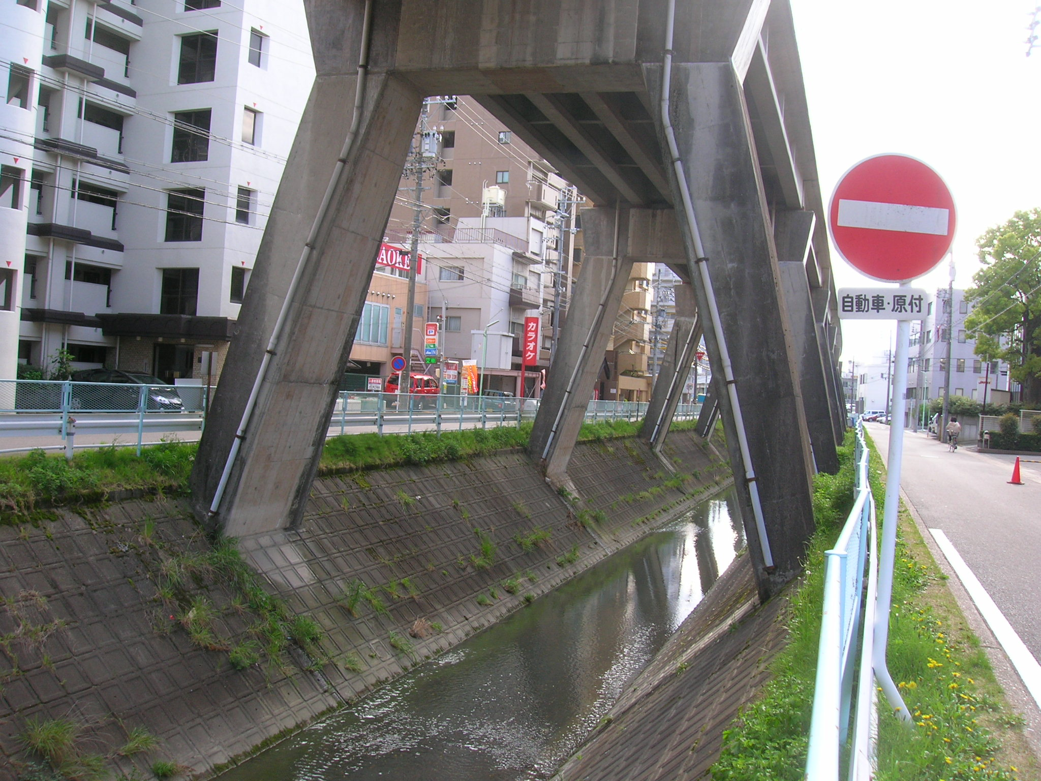 Ueda river under the elevated subway railroad near Hongo station